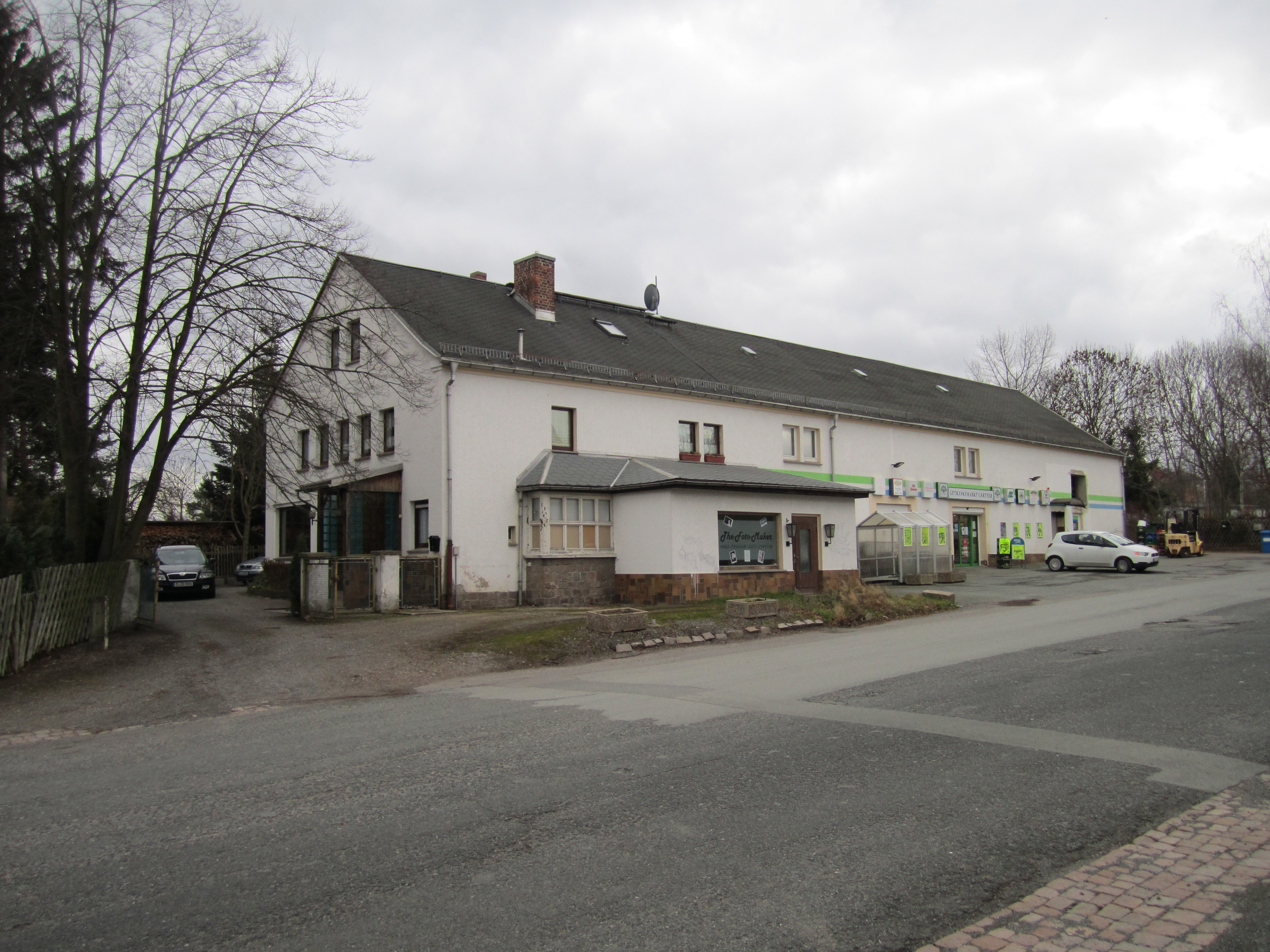 Former train station of Niederplanitz, city of Zwickau, Saxony, Germany.